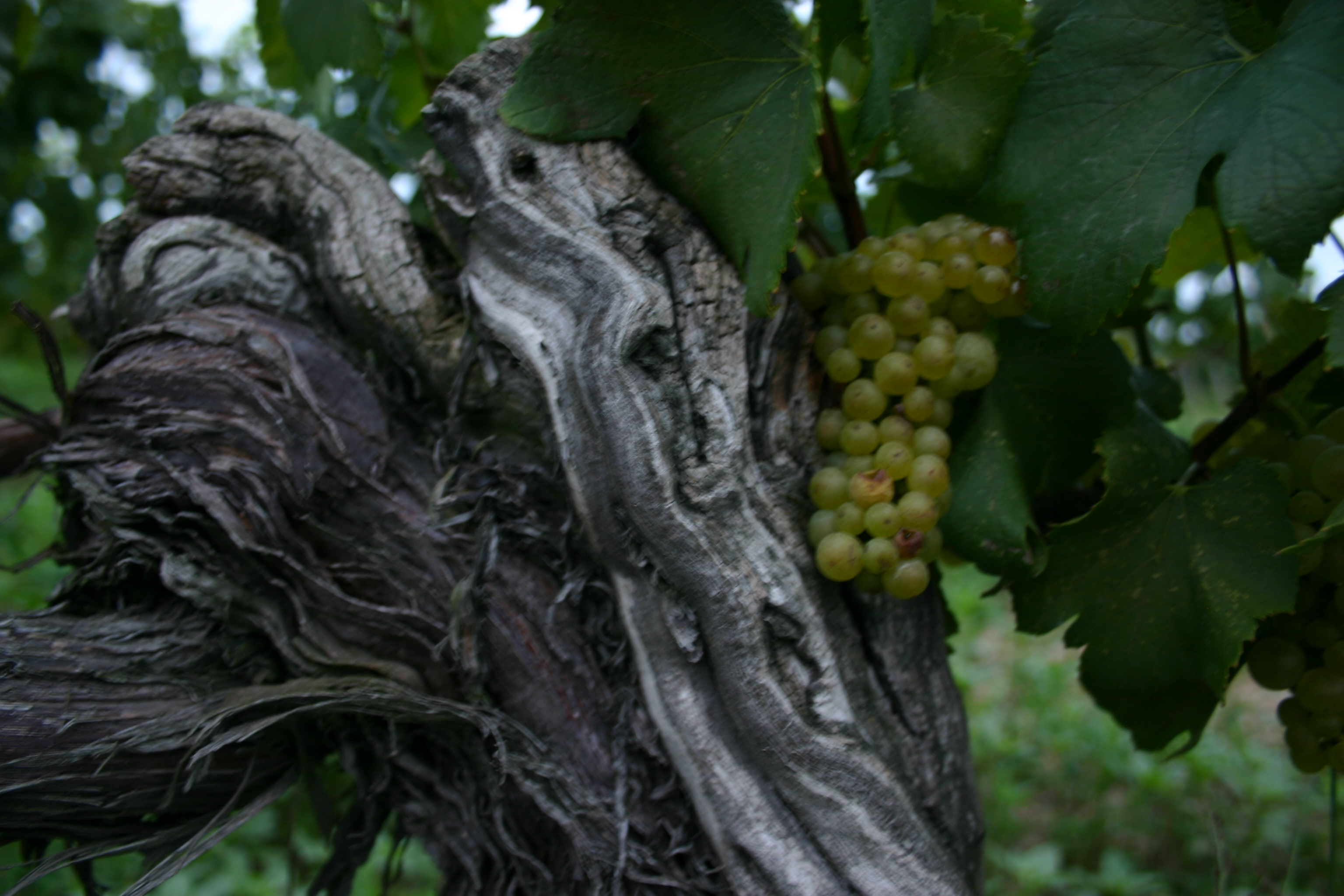 chardonnay vines planted in 1959 by William Lenko